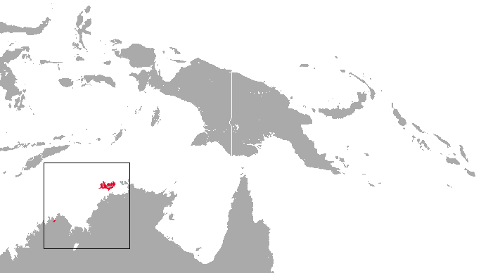 Carpentarian Dunnart (Sminthopsis butleri) range